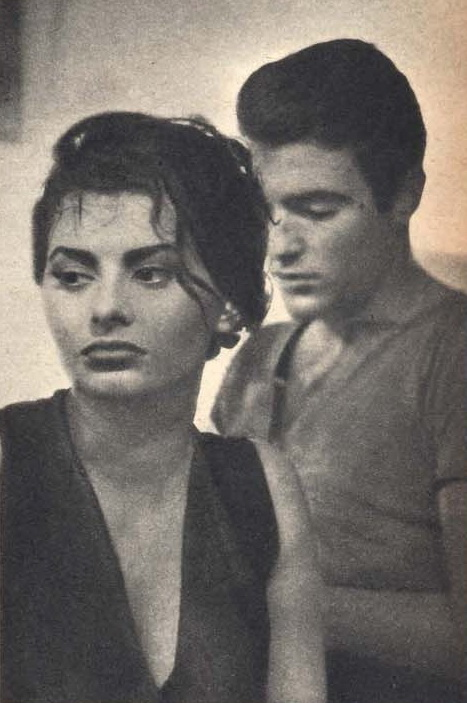 Italian actors Sophia Loren and Rik Battaglia in Comacchio, in the set of the Italian film La donna del fiume